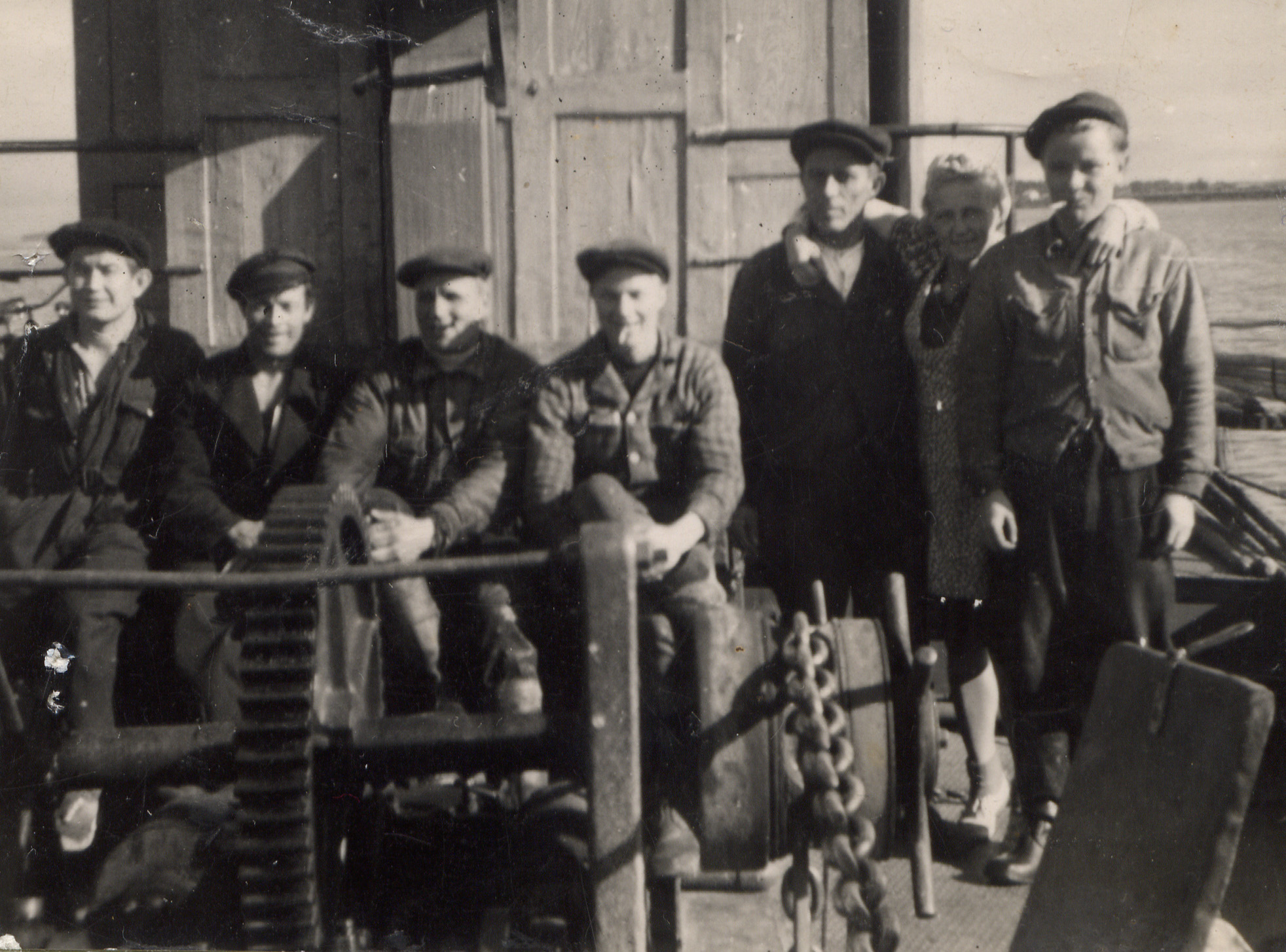 S/S Kajaani I miehistö ja kokki/ crew and the cook